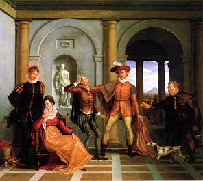 Petruchio attacks the Tailor in Act III, scene iv of The Taming of the Shrew